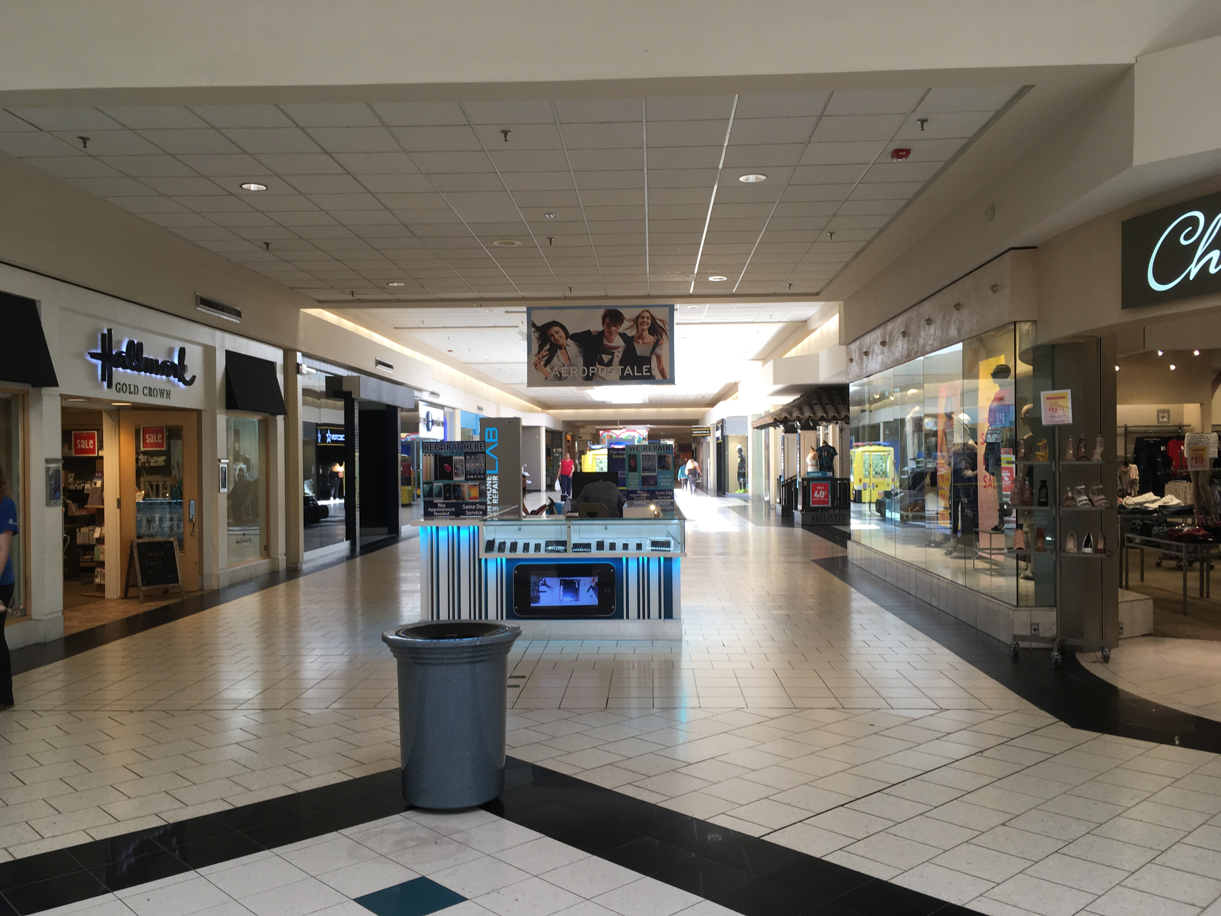 A view of the Dover Mall in Dover, Delaware looking north near JCPenney